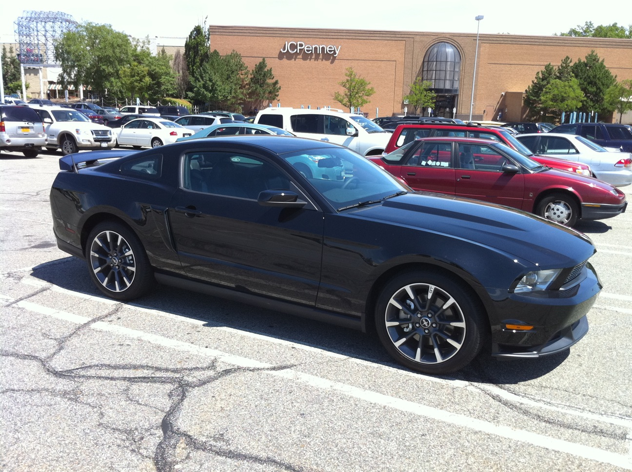 2011 Ford Mustang GT/CS Black Side View